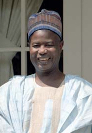 Image of U.S. President Ronald Reagan and President of Cameroon Ahmadou Babatoura Ahidjo